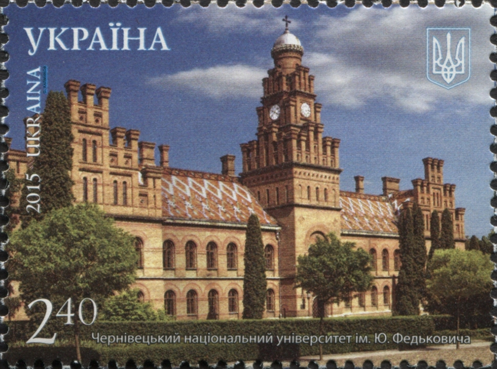 Stamps of Ukraine, 2015